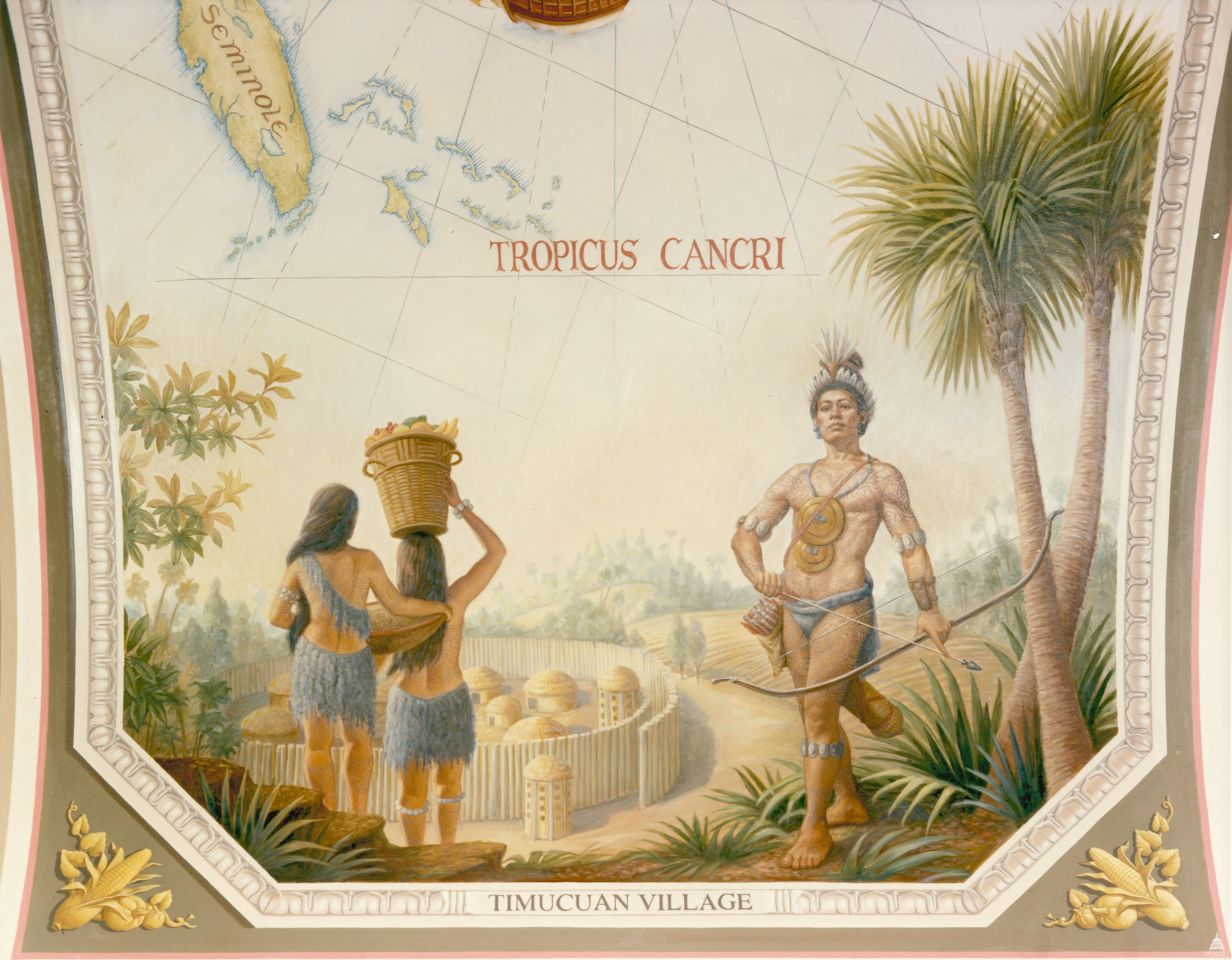 EverGreene Painting Studios Oil on Canvas 1993-1994 Three Native Americans of northern Florida's Timucuan tribe are depicted near their village. This official Architect of the Capitol photograph is being made available for educational, scholarly, news or personal purposes (not advertising or any other commercial use). When any of these images is used the photographic credit line should read “Architect of the Capitol.” These images may not be used in any way that would imply endorsement by the Architect of the Capitol or the United States Congress of a product, service or point of view. For more information visit